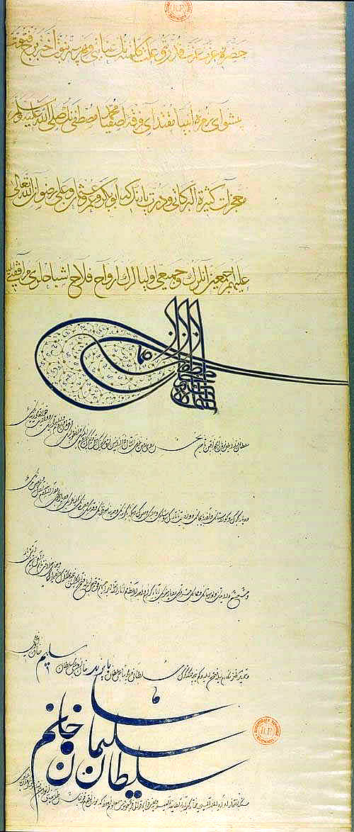 Letter of Suleiman the Magnificent to Francis I of France